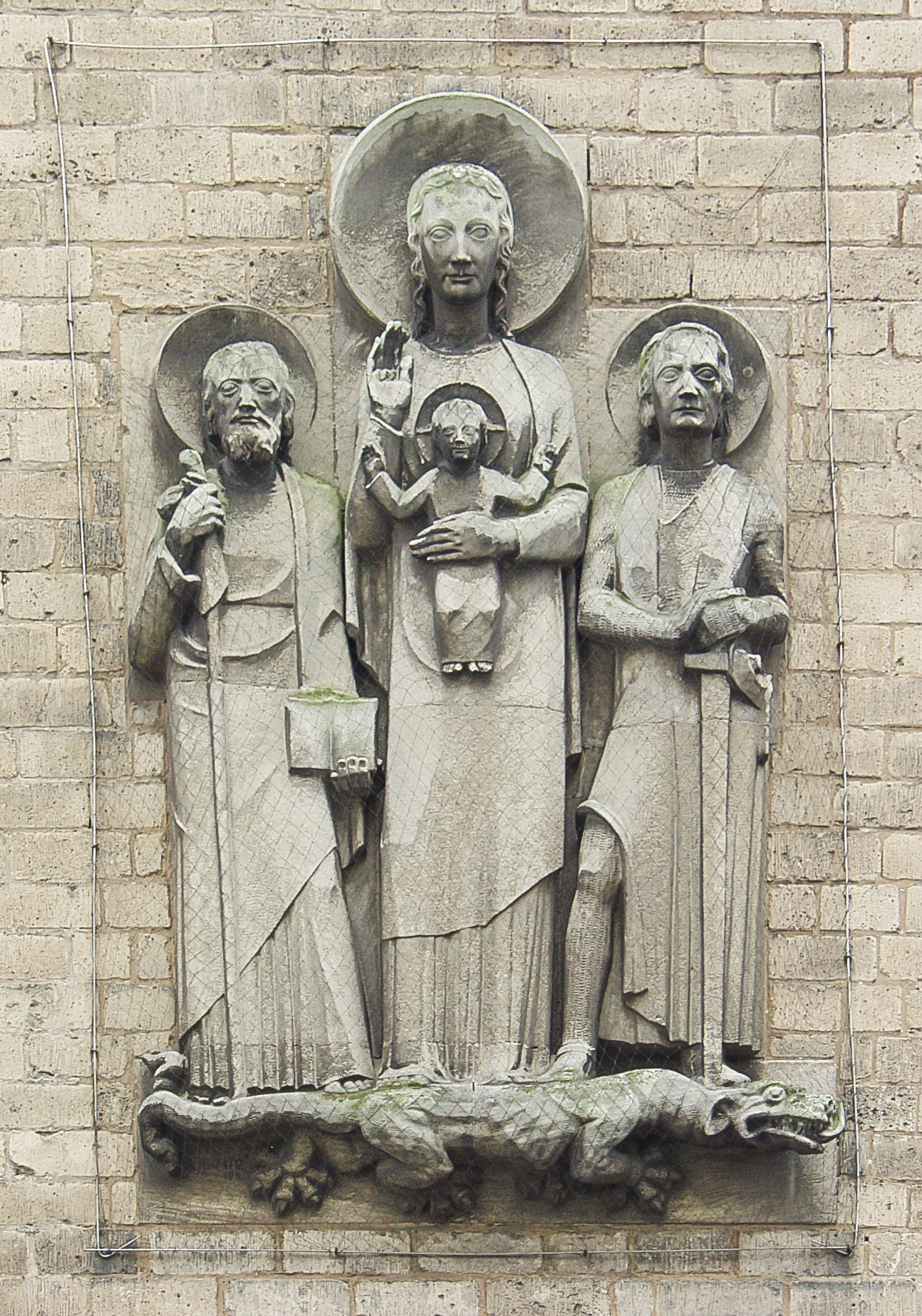 Stone relief "Anno II, Archbishop of Cologne, Virgin Mary with the Jesus child and Saint George"